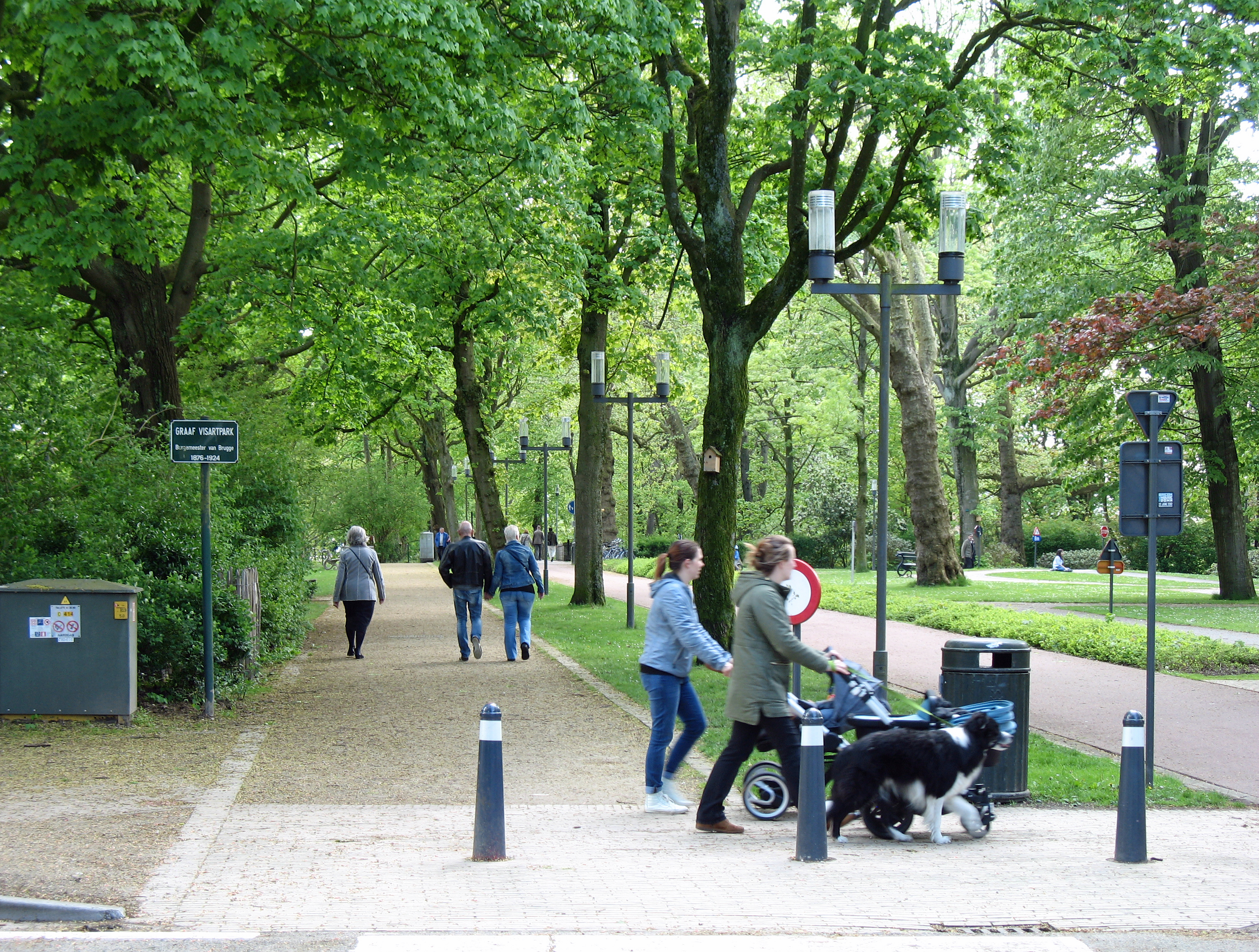 Bruges (Belgium): Graaf Visartpark street